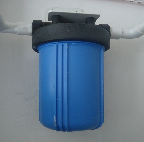 Polishing filter